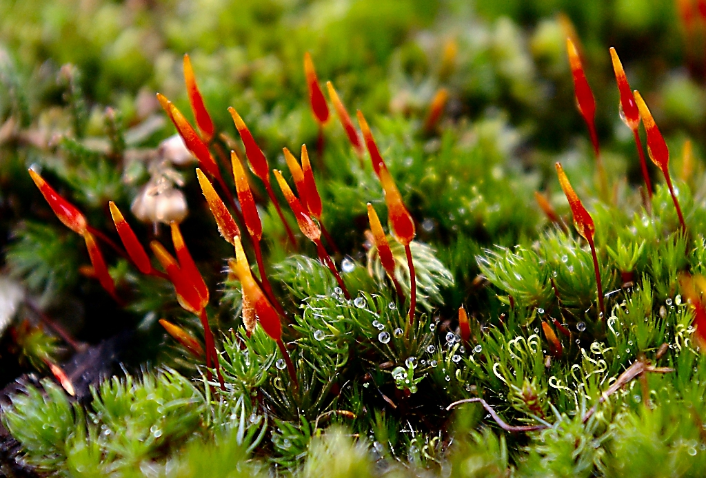 Own picture.